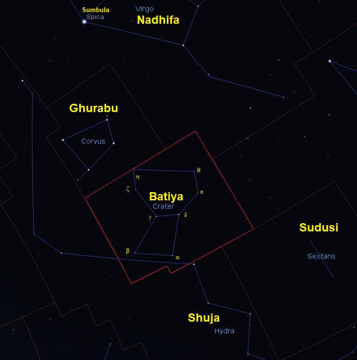 Constellation Crater as seen from Tanzania, swahili labelled Kiswahili: Kundinyota ya Batiya jinsi inavyoonekana Dar es Salaam